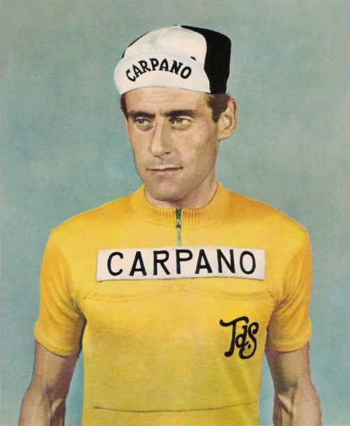 Attilio Moresi 1961 postcard